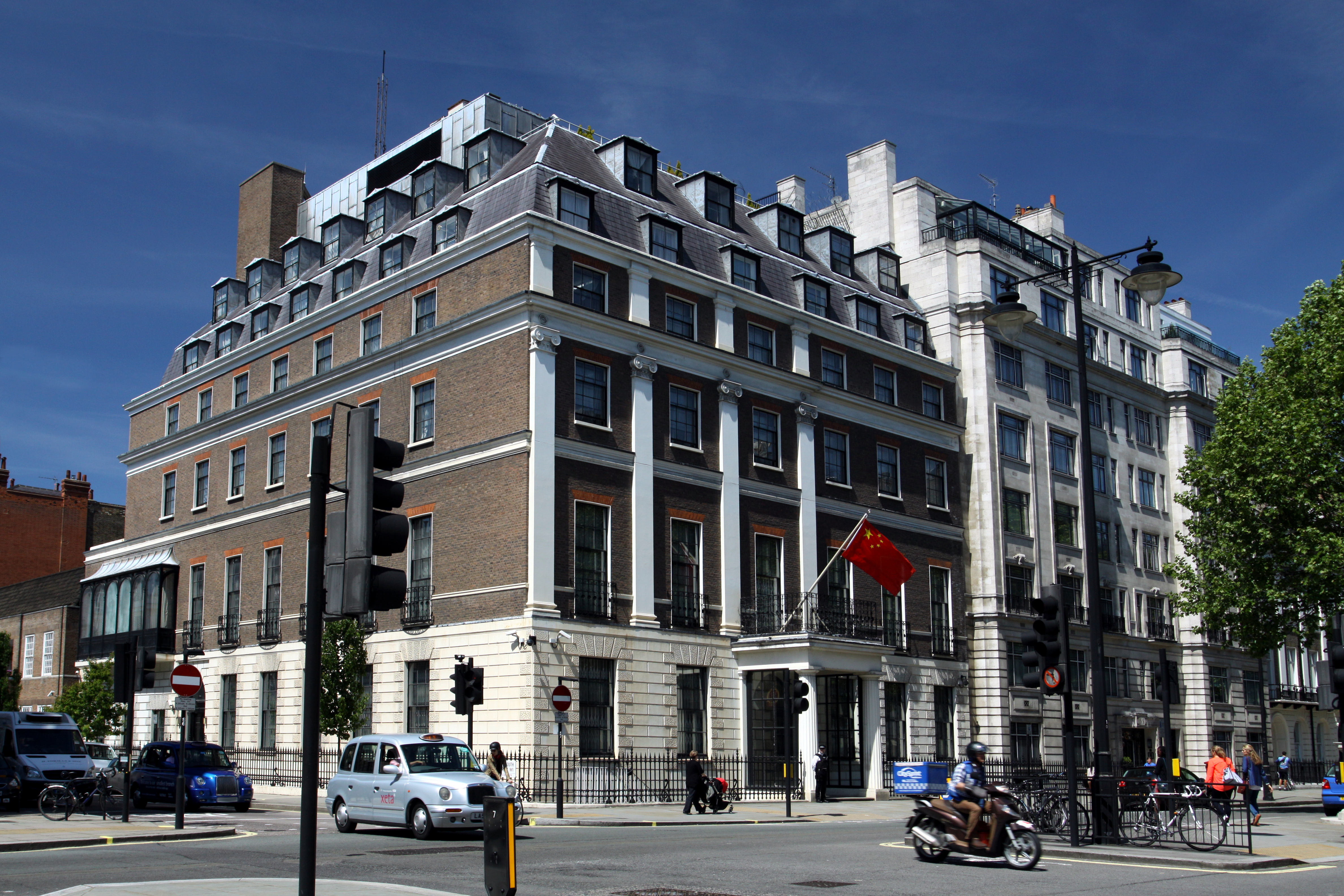 Chinese Embassy building in the Portland Place in the City of Westminster, London, England, Great Britain